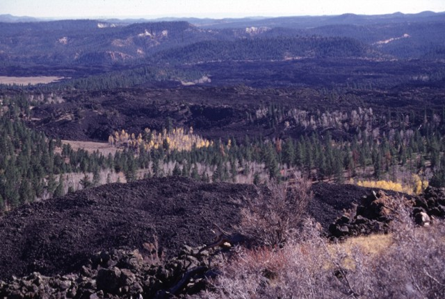 Black Rock Desert volcanic field — Markagunt Plateau. Blocky unvegetated lava flows extend from near Miller Knoll to the SE. These flows, which also extend NE to near Panguitch Lake, are among the youngest features of the Markagunt Plateau volcanic field. This is one of several young volcanic fields in SW Utah.